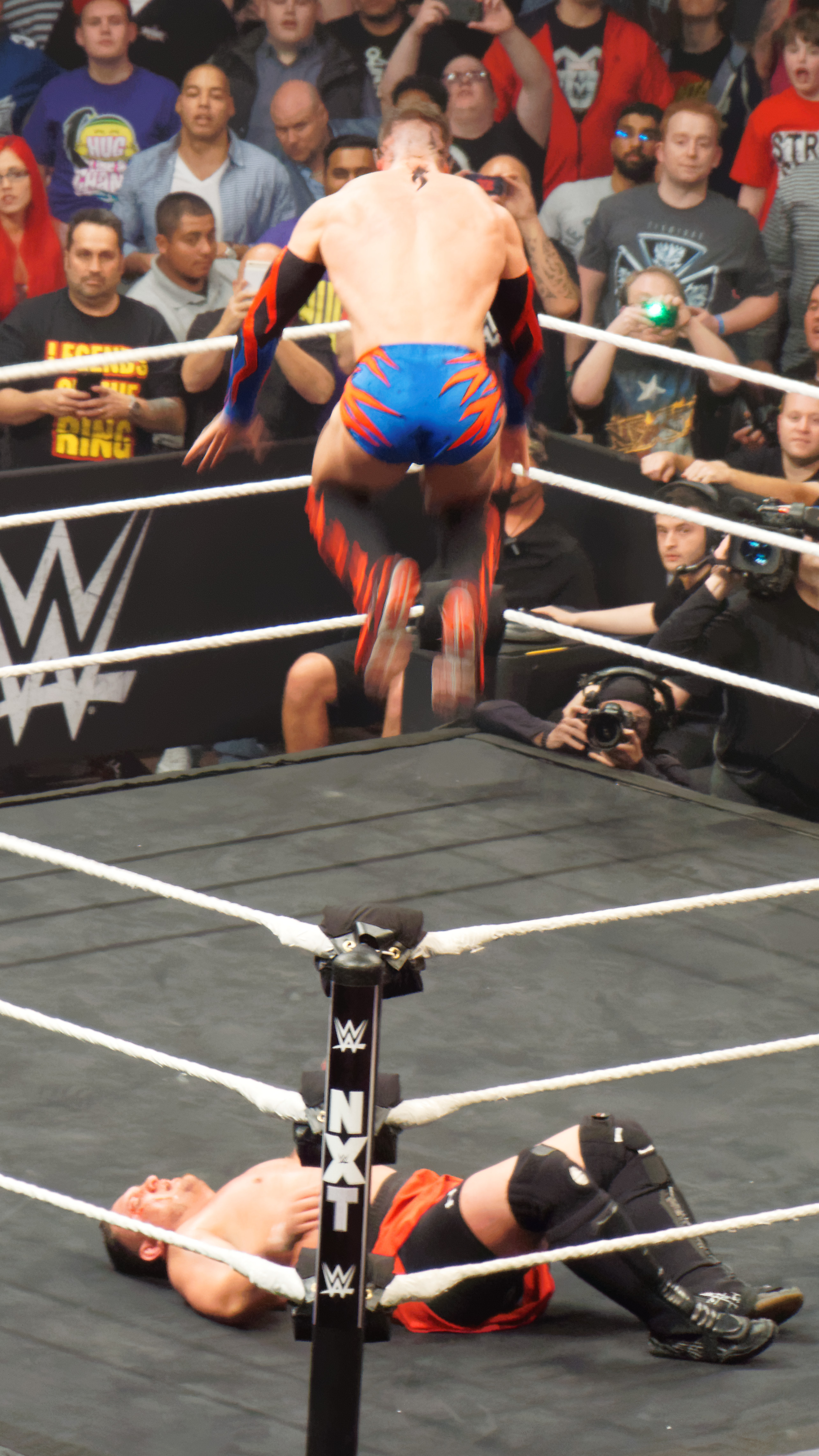 NXT TakeOver: Dallas was a major professional wrestling show in the NXT TakeOver series that took place on April 1, 2016, produced by WWE, showcasing its NXT developmental brand, and was streamed live on the WWE Network. It took place in the Kay Bailey Hutchison Convention Center in Dallas, Texas, during the weekend of WrestleMania 32. It was the first show in the NXT TakeOver series to be broadcast live on the WWE Network during WrestleMania weekend and first of 2016.[4] It was notable for Shinsuke Nakamura's WWE debut and first live match.The event received critical acclaim, with critics endorsing it as being better than WWE's WrestleMania 32 held two days later. The Zayn-Nakamura match was also lauded for being better than any match from WrestleMania 32.Finn Balor (c) def. (pin) Samoa Joe for the NXT Championship